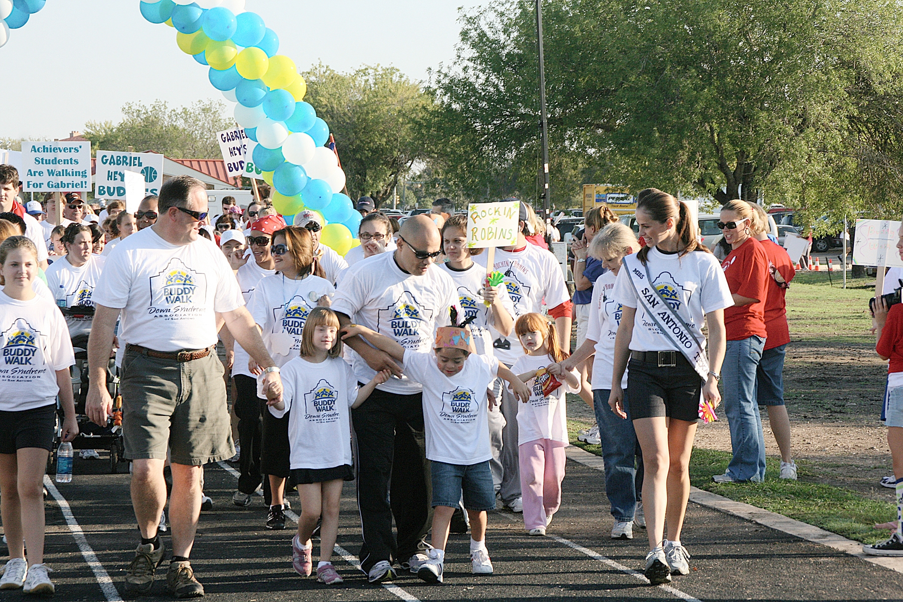 San Antonio native and two-time WBC Super Featherweight World Champion, Jesse James Leija, this years' Honorary Buddy, led the walk. "Buddies" Alex Hidle (on right of Leija) and Dakota Carrillo escorted Leija through the ballooned archway, along with Miss San Antonio, Frenchellen Gilliam (far right). More than 4,000 participants walked the one-mile loop at the BG Johnson track at Fort Sam Houston to show their support and bring awareness to Down syndrome.